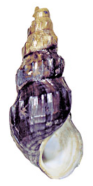 Apertural view of a shell of Brotia sumatrensis.